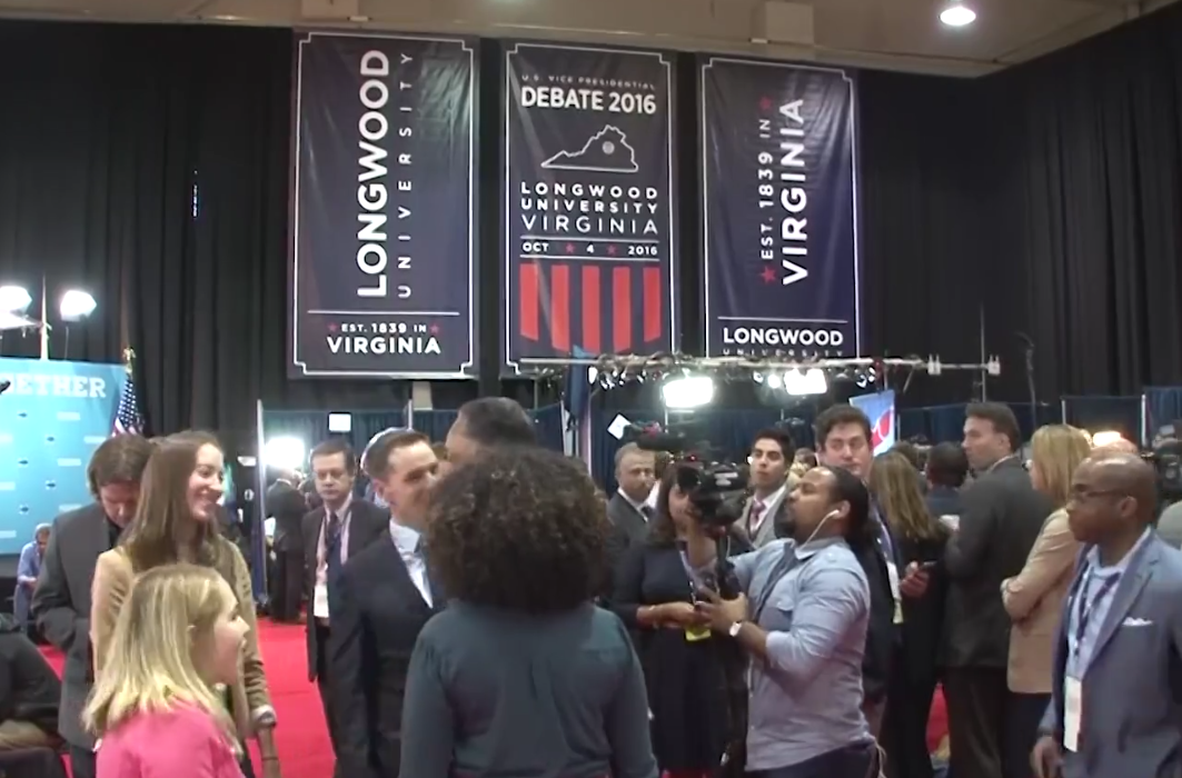 The "spin room" of the U.S. vice-presidential debate, 2016.